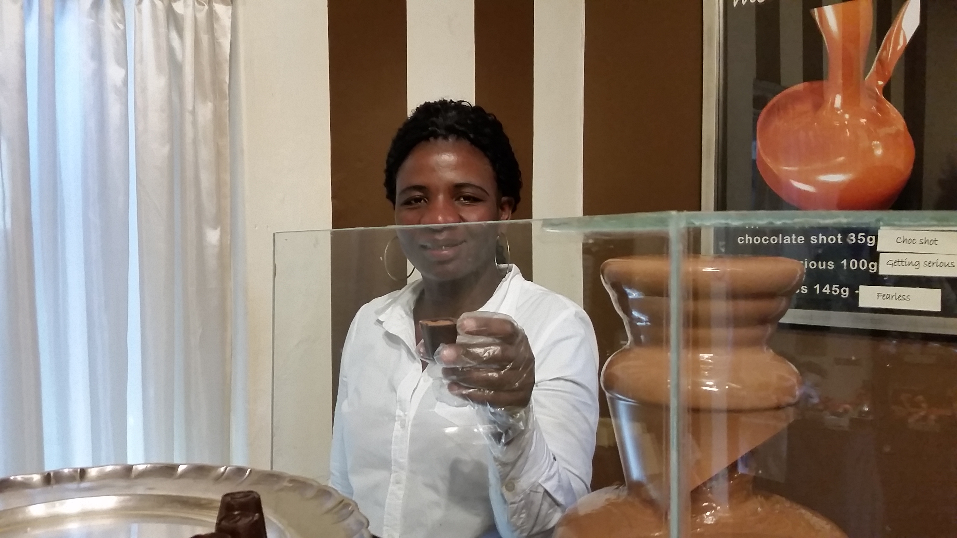 Working in a chocolate shop This is an image of "African people at work" from South Africa